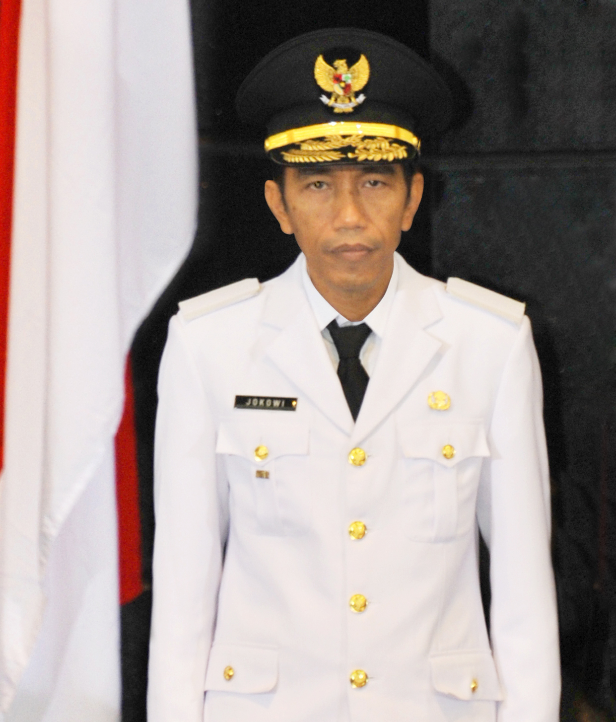 Joko Widodo, Governor of Jakarta, Indonesia for 2012-2017 term.